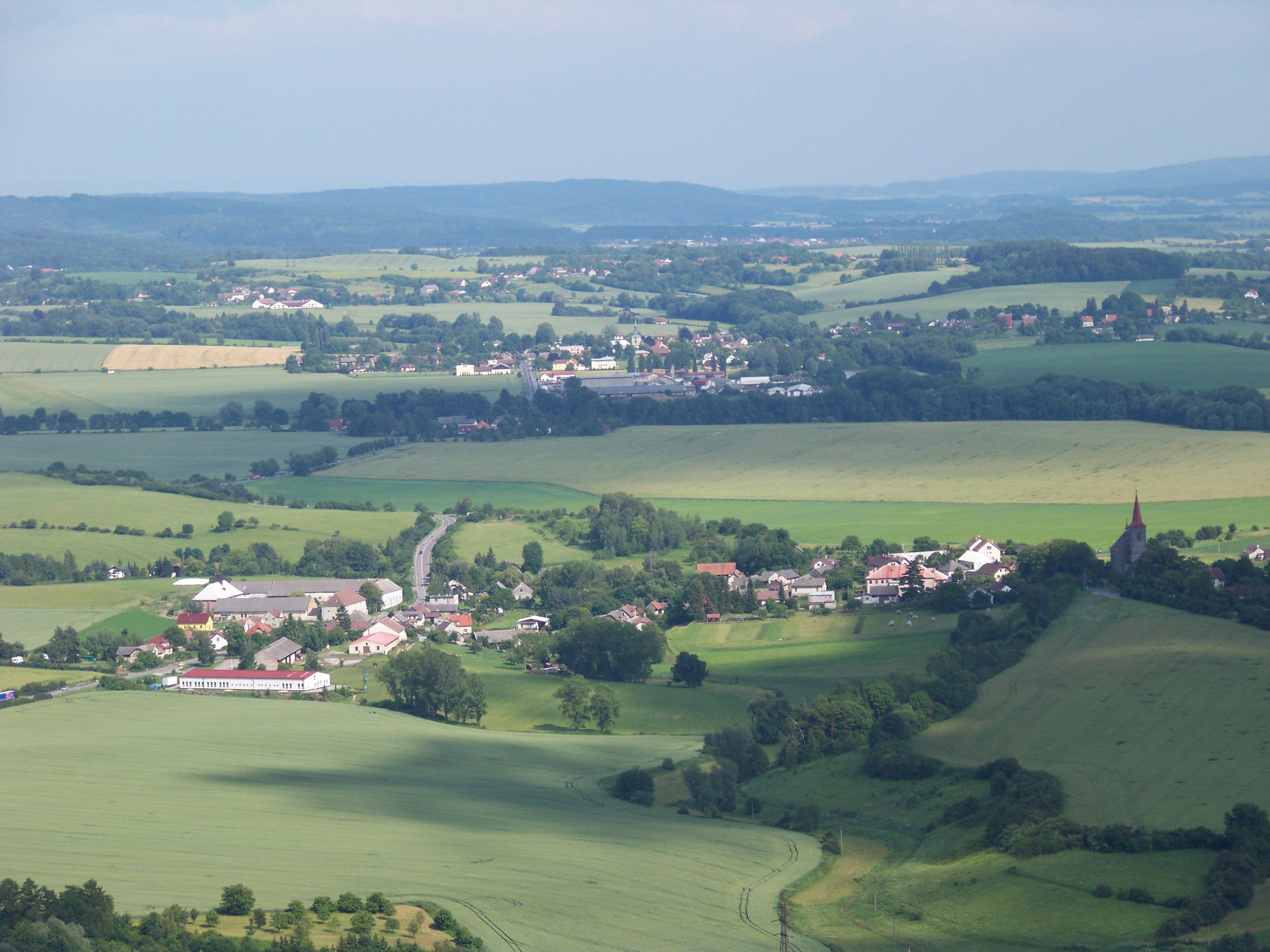 Views from Trosky Castle (Troskovice, Liberec Region, the Czech Republic) to the South-Ost to Újezd pod Troskami and Libuň, Hradec Králové Region. - Google Maps - Google Earth